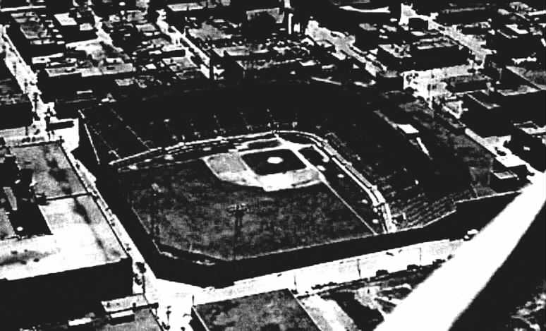 The Montreal Royals of the International League played their games in this stadium of 28,000 seats. It is located on the corner of Ontario Street and De Lormier Street in the east-end of Montreal.